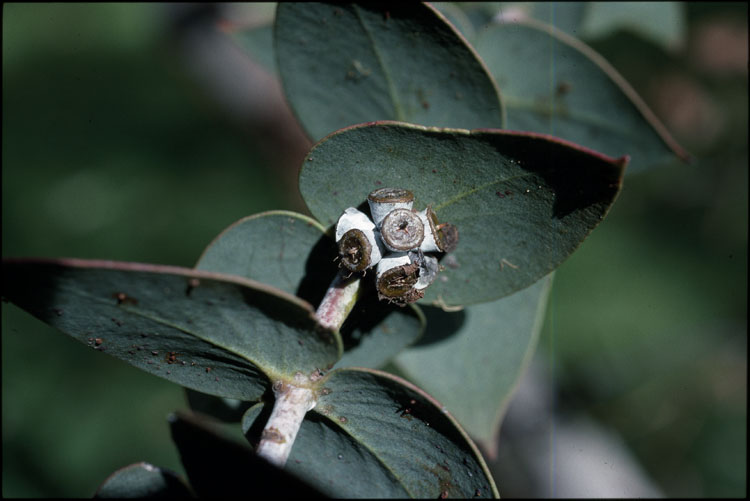 Fruit of Eucalyptus sturgissiana in the Australian National Botanic Gardens